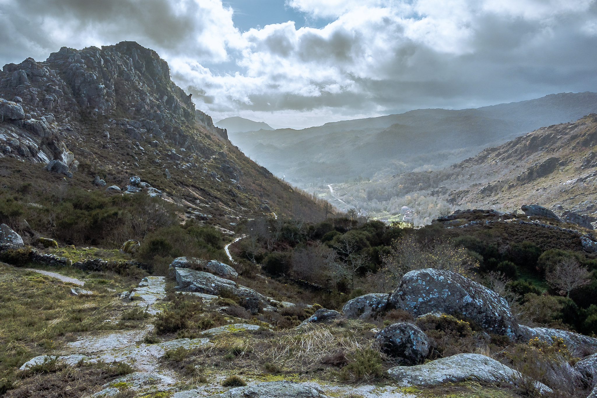 500px provided description: Castro Laboreiro landscape [#landscape ,#mountains ,#winter ,#nature ,#clouds ,#outdoor ,#trail ,#rocks ,#green ,#highlands ,#mountain ,#grey ,#haze ,#natural light ,#Portugal ,#Ger?s ,#Peneda-Ger?s ,#Castro Laboreiro]